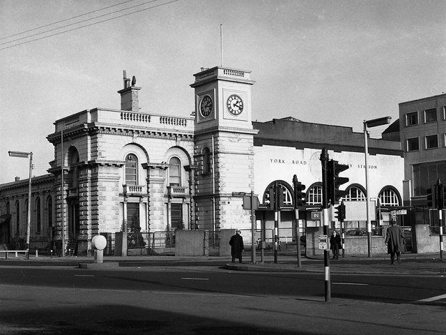 York Road railway station. Built by the Belfast & Ballymena Railway to a design by Sir Charles Lanyon, York Road station opened in 1848. Very badly damaged in the 1941 Blitz, it suffered further bomb damage in the 1970s. Closed in 1975, the remaining... more